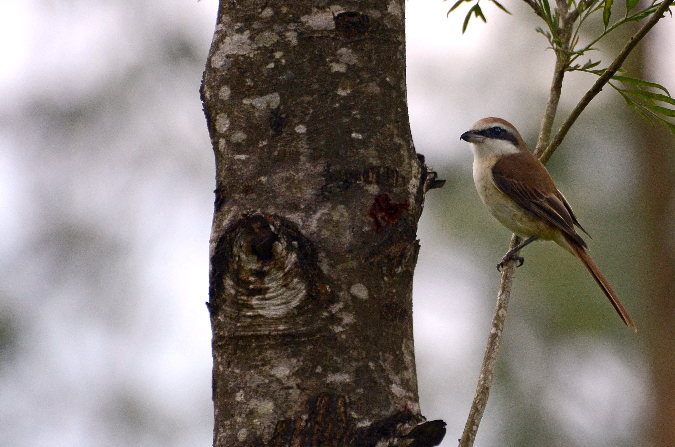 Brown shrike (Lanius cristatus)from anaimalai hills closeup